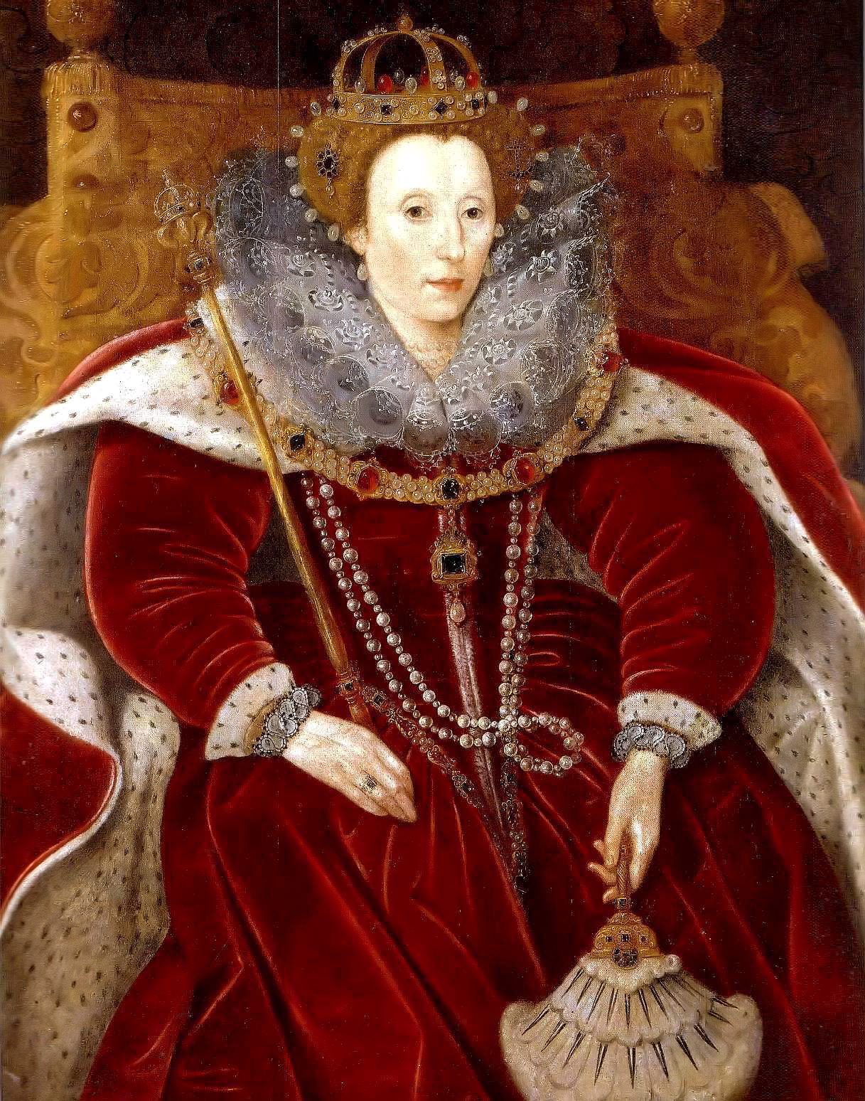 Elizabeth I of England in Parliament Robes, Helmingham Hall, Stowmarket